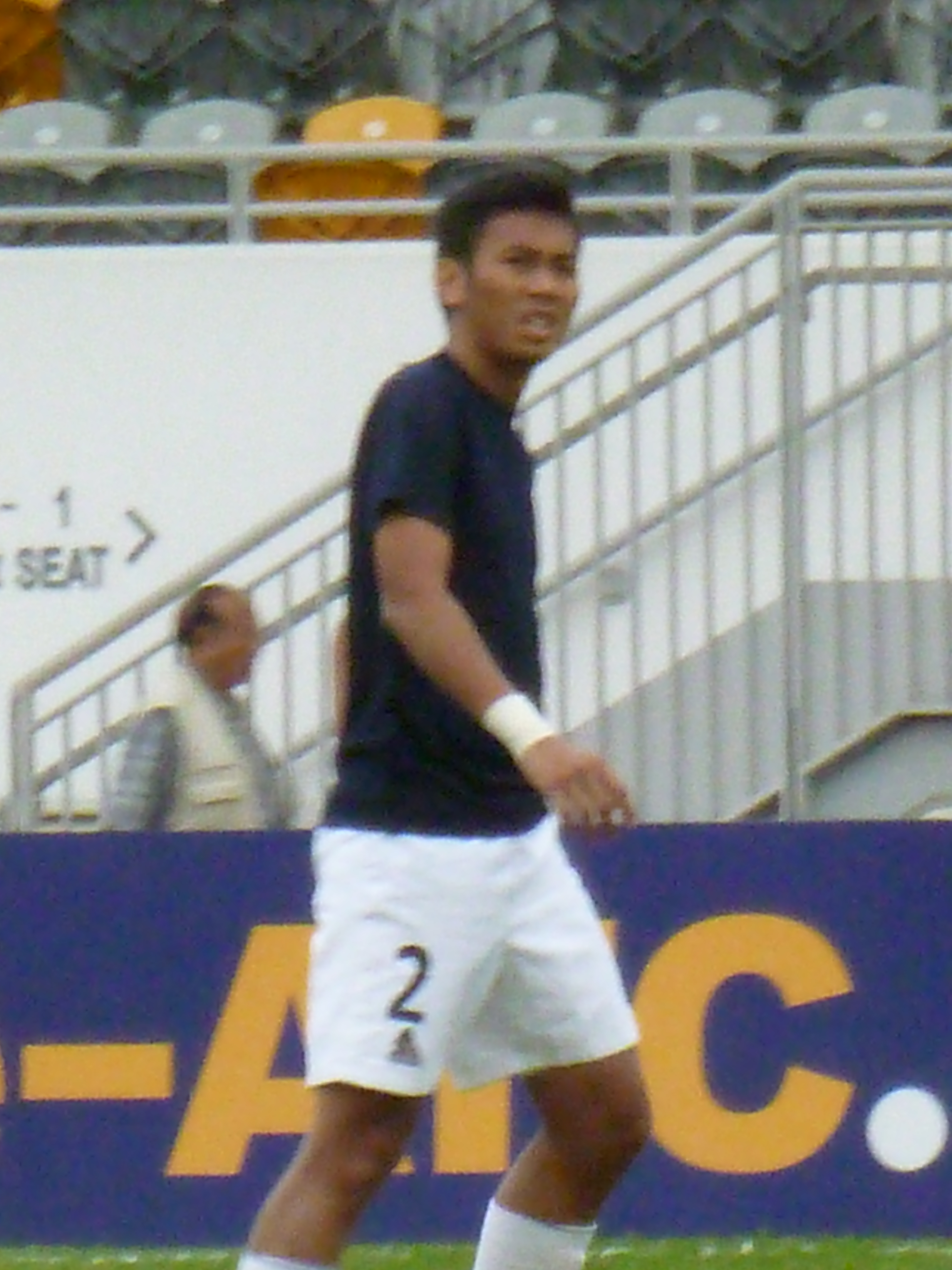 Syaiful Iskandar (01 May 2013, AFC Cup, Kitchee vs Singapore Armed Forces, Mongkok Stadium) 中文（香港）: 蘇奇利 (01 May 2013, 亞洲足協盃, 傑志 vs 新加坡武裝部隊, 旺角大球場)